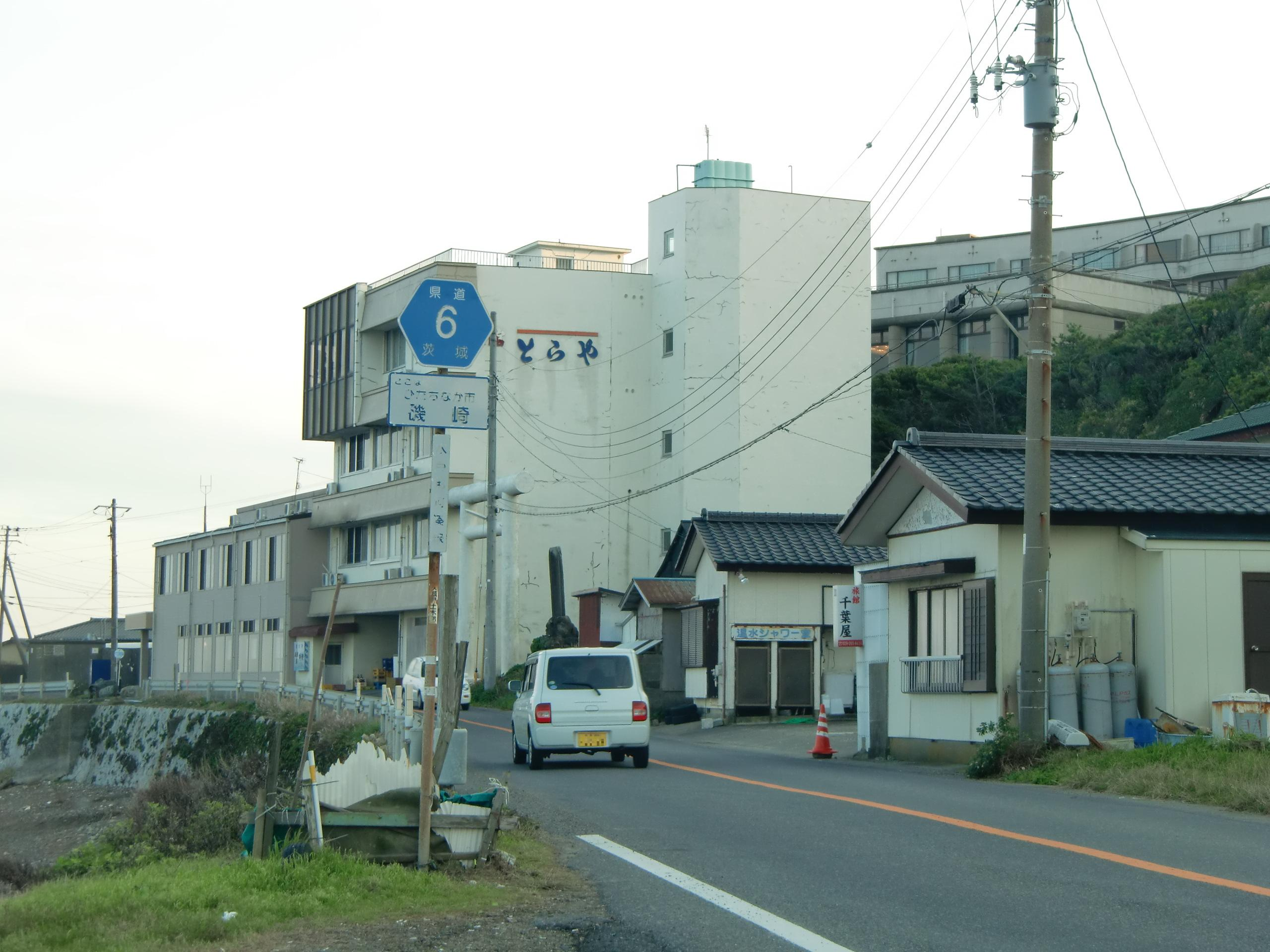 Ibaraki Prefectual Road Route 6 in Isozaki-cho, Hitachinaka City